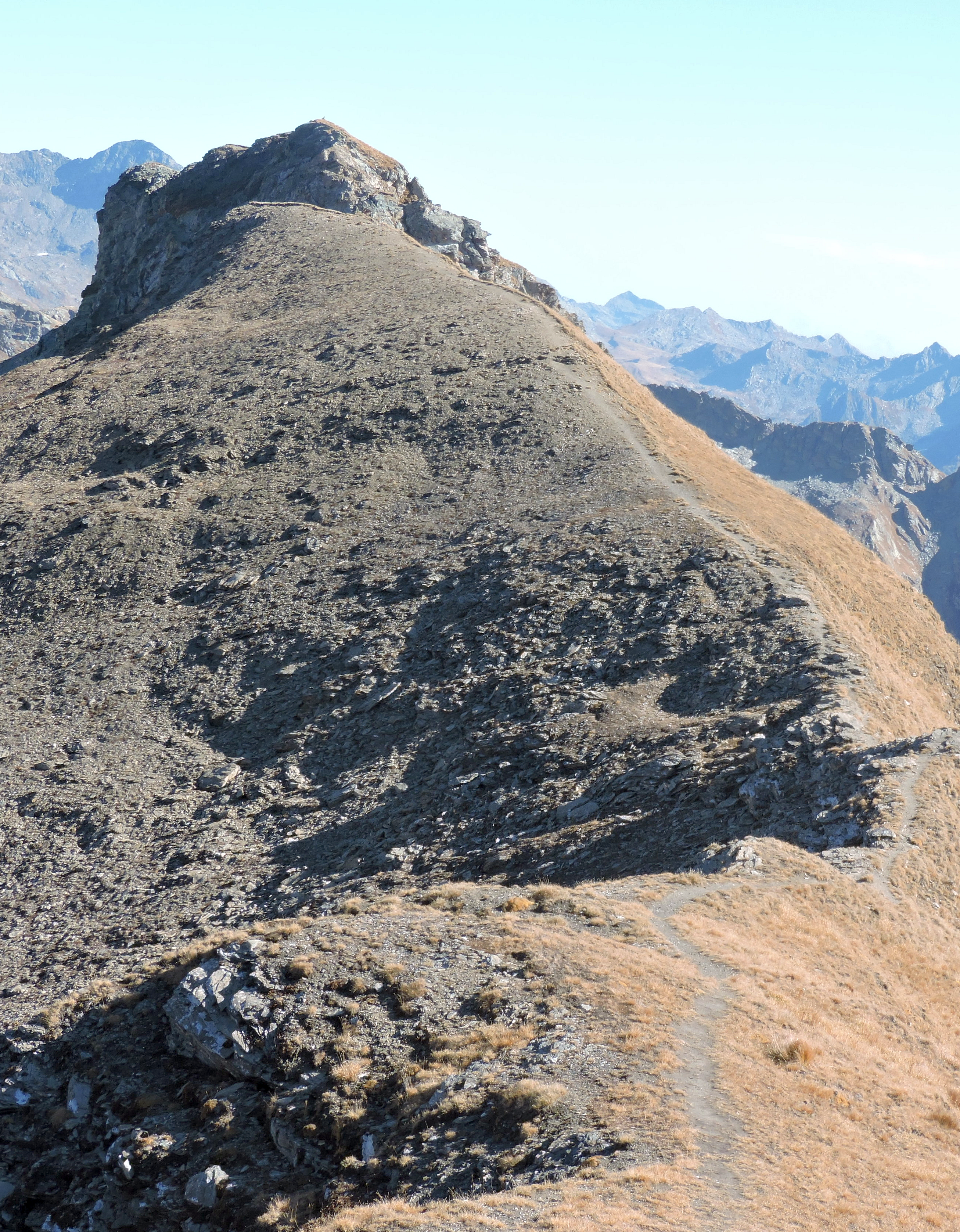 Punta del Lago (Aosta Valley, Italy) as seen from West